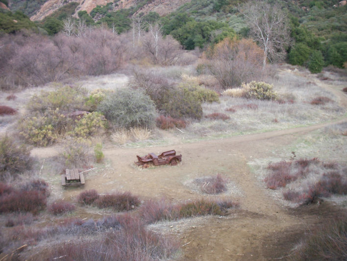 Chuck G February 2007